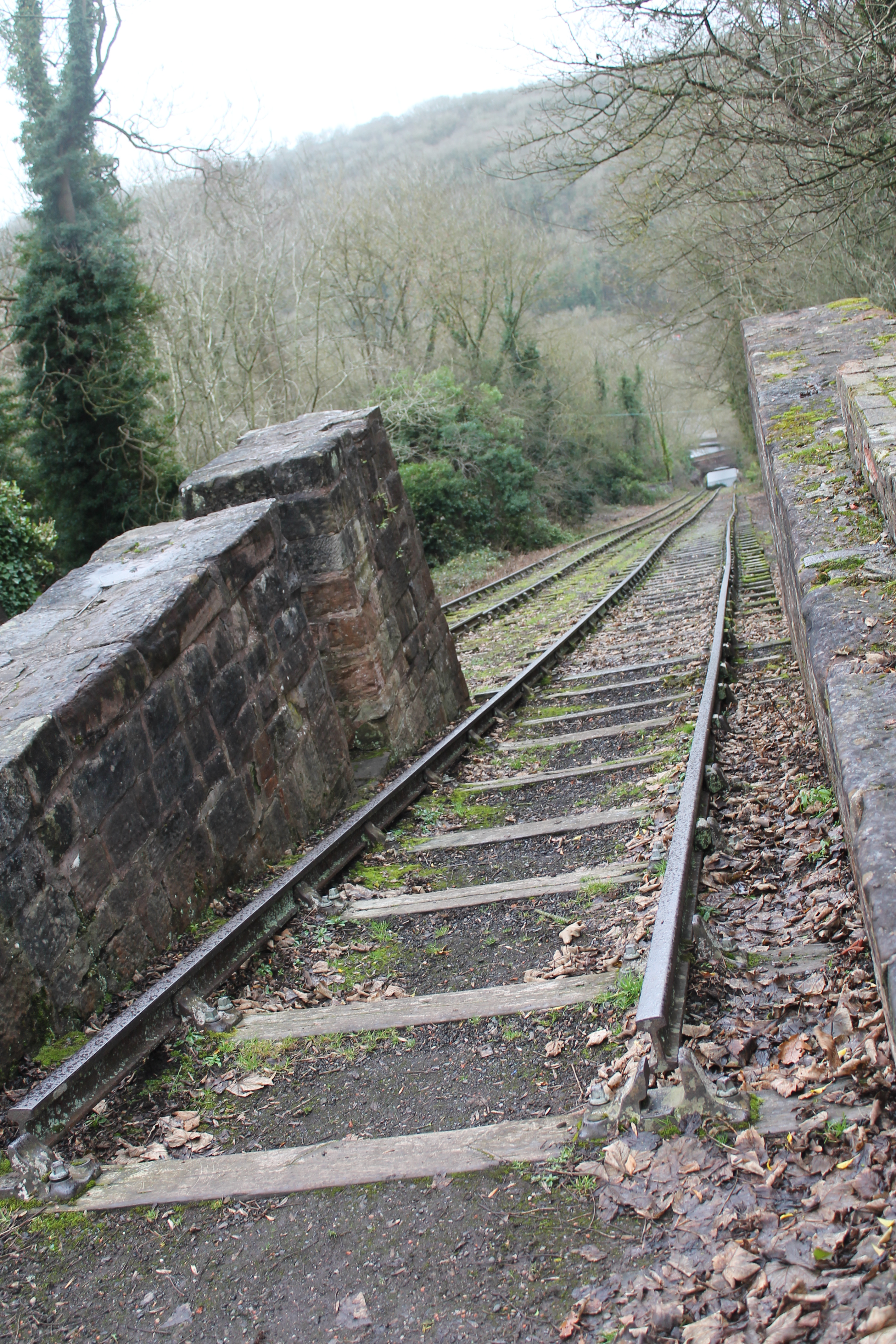 Hay Inclined Plane at Blists Hill